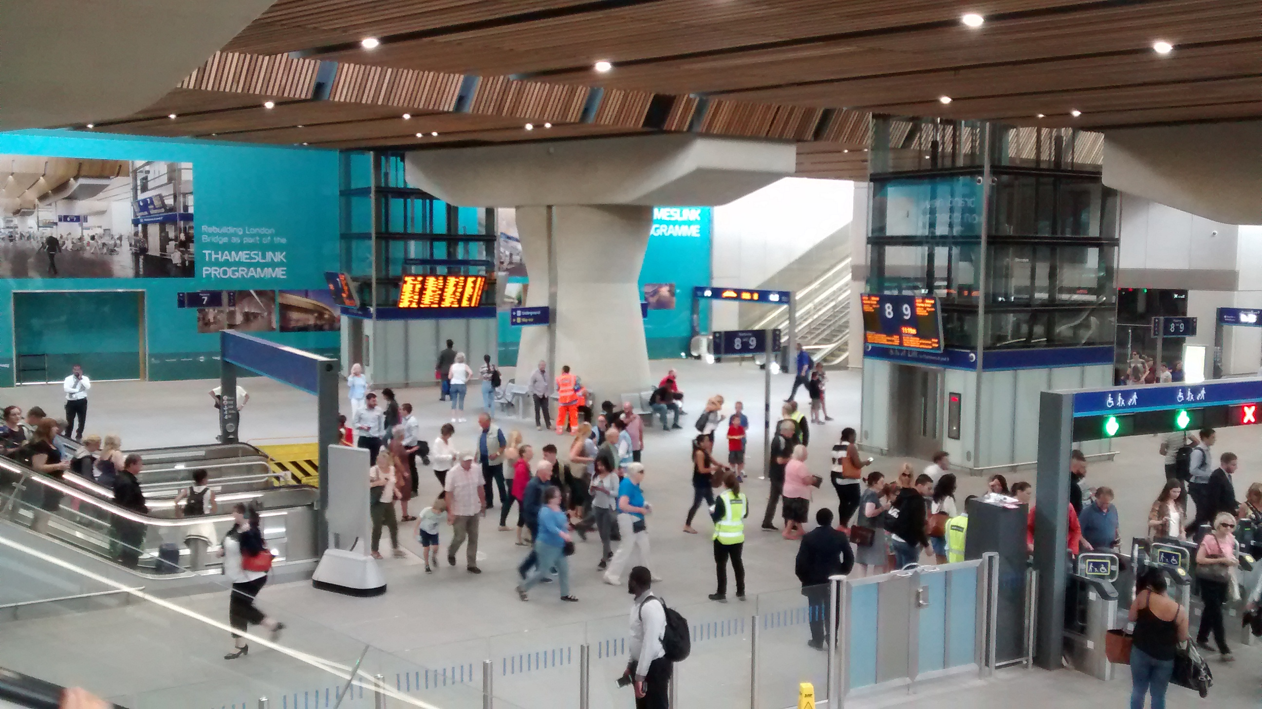 The new concourse under platforms 7-9 at London Bridge railway station in London, which opened in August 2016.